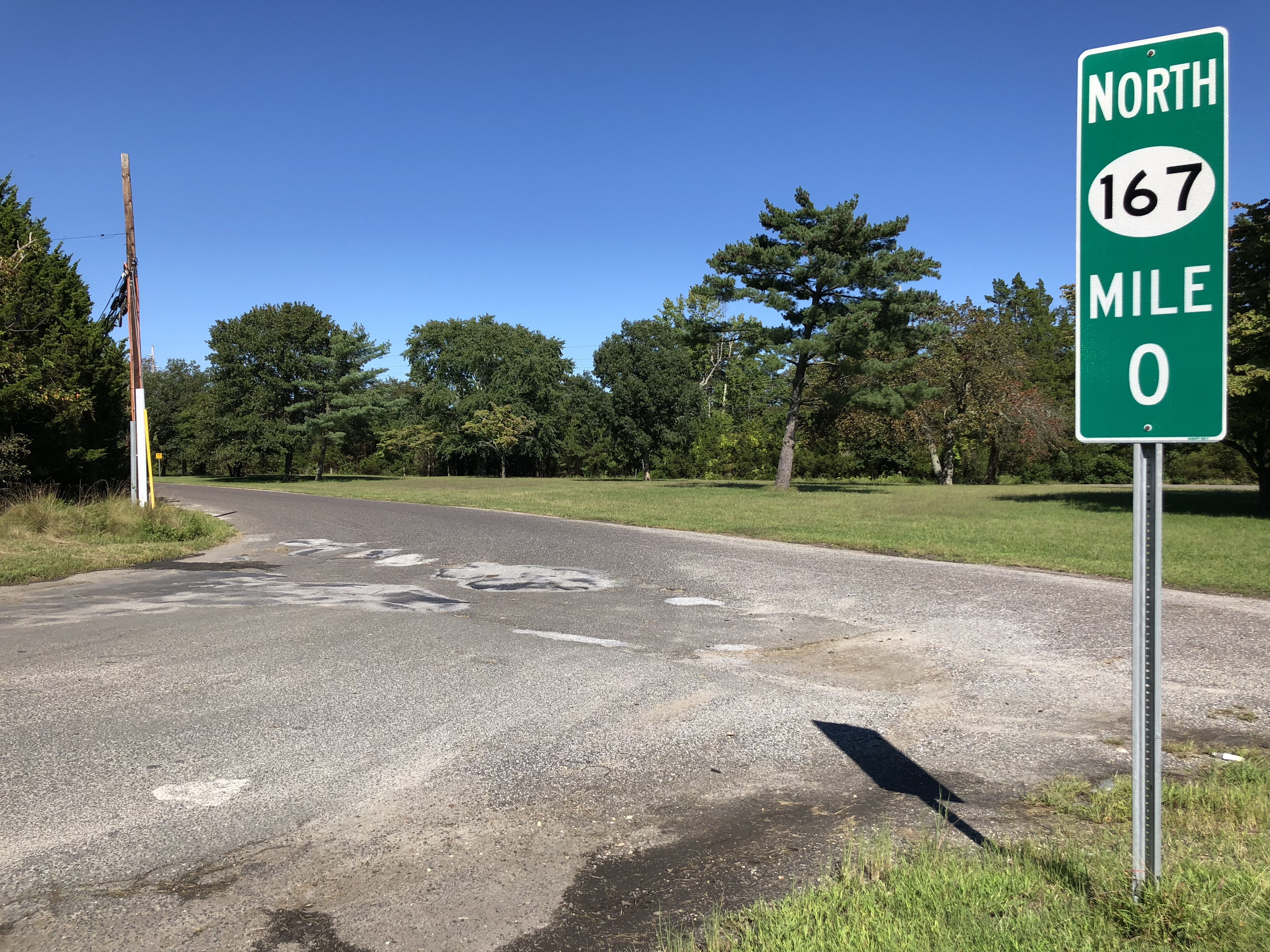 View north along New Jersey State Route 167 (New York Road) at U.S. Route 9 in Port Republic, Atlantic County, New Jersey